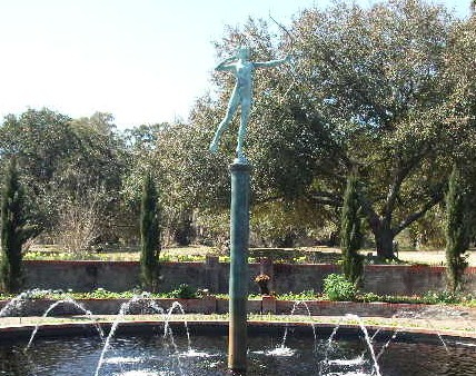 Sculpture of Diana at Brookgreen Gardens, Murrell's Inlet, SC